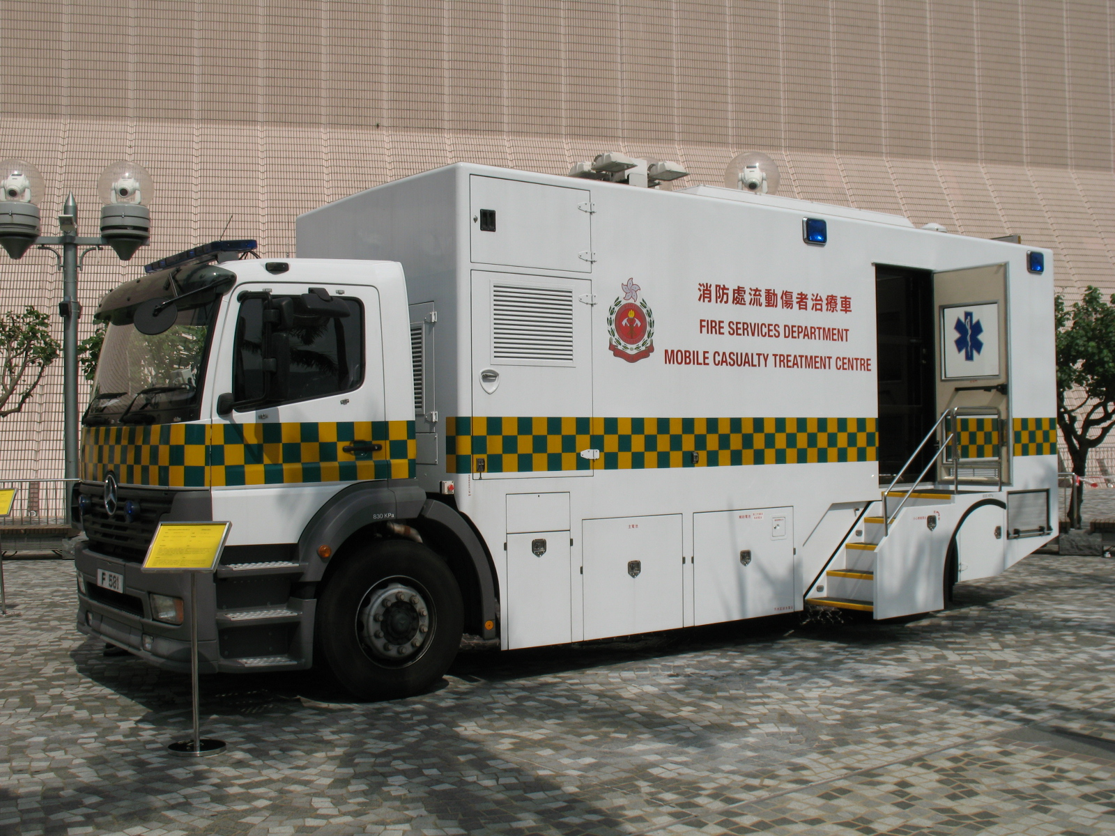 Manufacturing Commercial Vehicles (MCV) manufactured Mercedes-Benz Axor truck from the Hong Kong Fire Services Department.